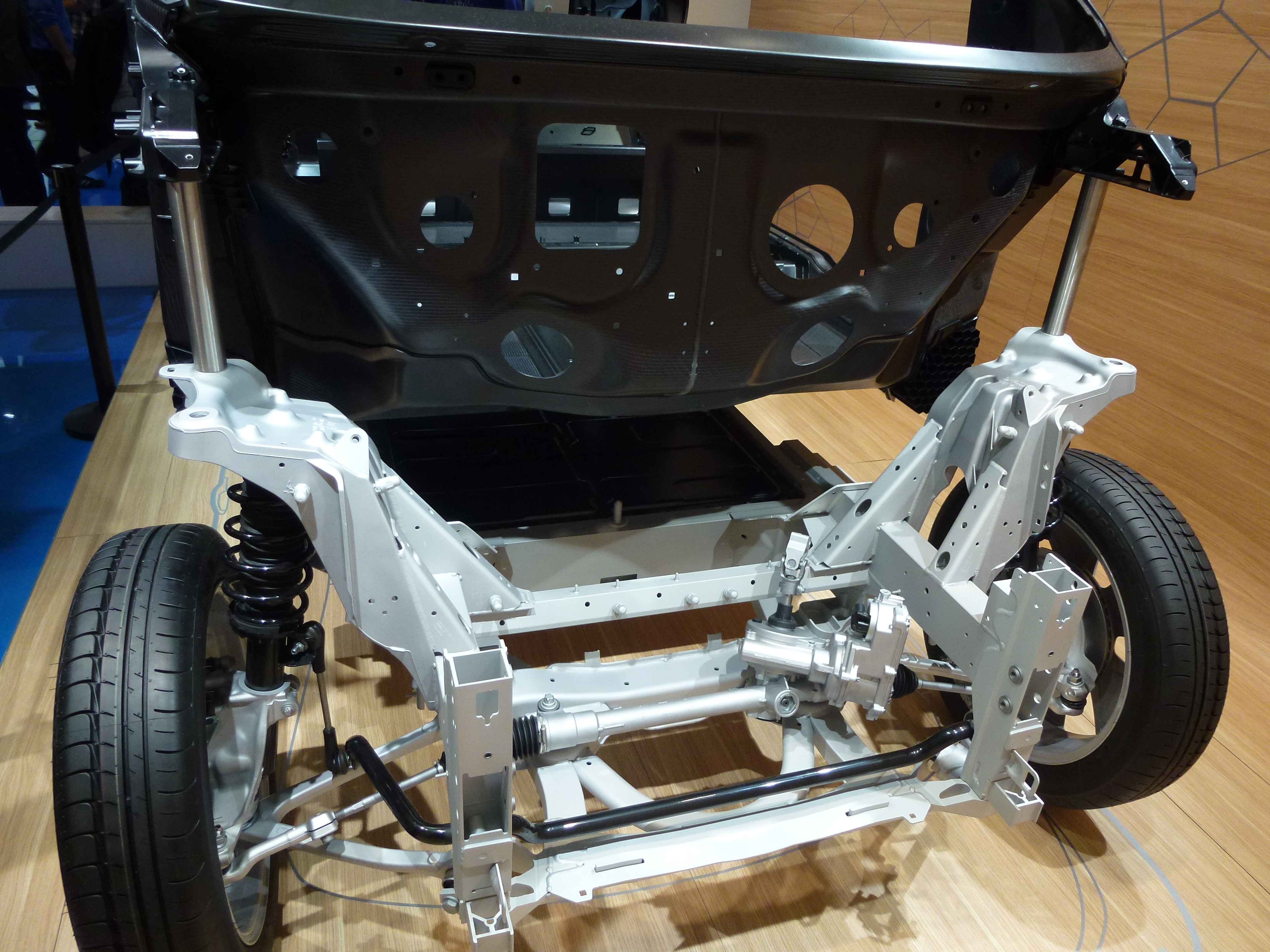 BMW i3 Car